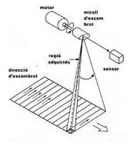 Optical scanning